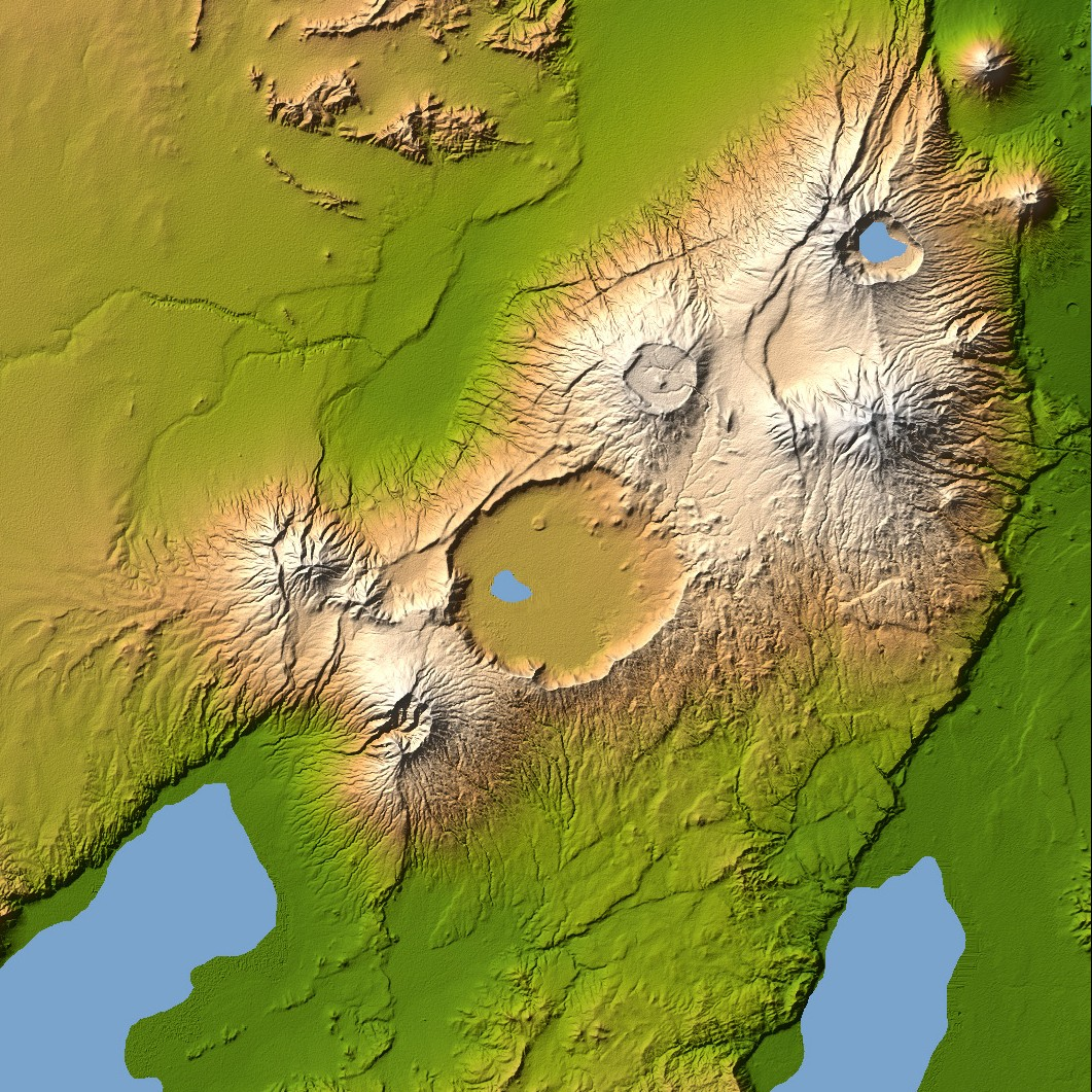 Ngorongoro’s caldera is 22.5 kilometers (14 miles) across at its widest point and is 610 meters (2,000 feet) deep. Its floor is very level, holding a lake fed by streams running down the caldera wall. It is part of the Ngorongoro Conservation Area and is home to over 75,000 animals. The lakes south of the crater are Lake Eyasi and Lake Manyara, also part of the conservation area. Orientation: North toward the top, Mercator projection Image Data: shaded and colored SRTM elevation model. The shade image was derived by computing topographic slope in the northwest-southeast direction, so that northwest slopes appear bright and southeast slopes appear dark. Color coding is directly related to topographic height, with green at the lower elevations, rising through yellow and tan, to white at the highest elevations. Date Acquired: February 2000